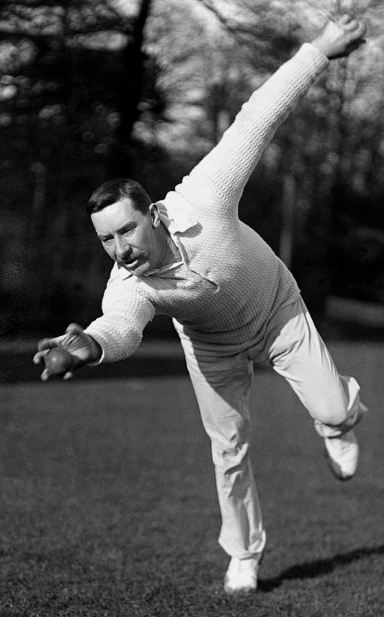 Lionel Seymour Wells, Middlesex, circa 1905.